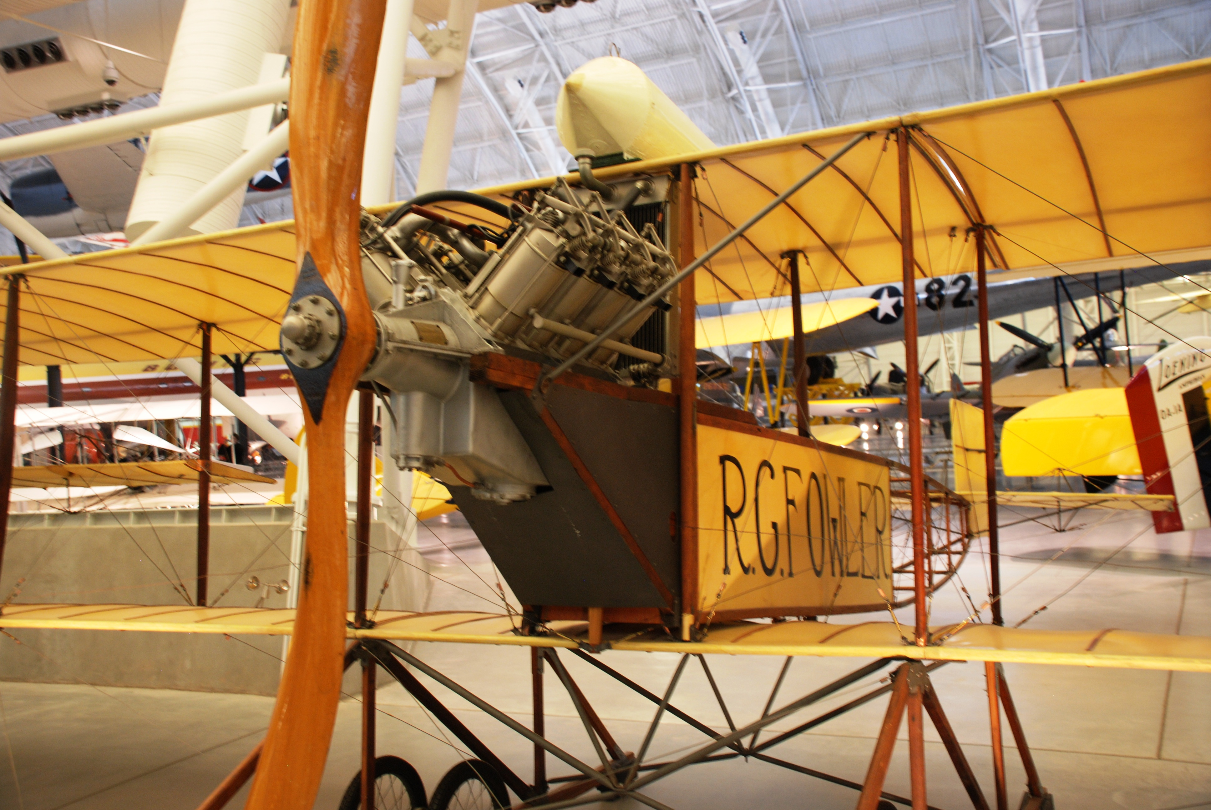 Fowler-Gage Biplane in Steven F. Udvar-Hazy Center. Museum Description: The 1912 Gage biplane in the NASM collection is referred to as the Fowler-Gage, in recognition of its owner and pilot, Robert G. Fowler. Beginning in October 1912, Fowler made numerous exhibition and passenger flights in California. He made his most famous flight in the airplane in 1913, flying ocean-to-ocean across Panama. With the Gage now on floats, Fowler started his Isthmus of Panama crossing with a takeoff from the Pacific side at 9:45 a.m. on April 27. It was an extraordinarily dangerous flight, with no open areas available for emergency landings. Nevertheless, he completed the 83 km (52 mi) flight in one hour and 45 minutes, landing with his passenger/cameraman, R.E. Duhem, at Cristobal at 11:30 a.m. Fowler continued to perform further exhibition and passenger-carrying flights, as well as flying linemen on inspection trips over the transmission lines between Sacramento and Oraville, California, for the Great Western Power Company. He retired the airplane in 1915. Gift of Robert G. Fowler. Inventory Number: A19510004000 Details: Manufacturer: Gage-McClay Company Date: 1912-1915 Country of Origin: United States of America Dimensions: Wingspan: 13.1 m (43 ft) Length: 7.6 m (25 ft) Height: 4.6 m (15 ft) Weight: 363 kg, without engine (800 lb) Materials: Airframe: Wood; Covering: Fabric Physical Description: Tractor biplane with one 90-horsepower Curtiss OX-5 V-8 engine. Open-frame fuselage. Double wheel landing gear with forward protruding landing skids. Natural finish overall with black markings.